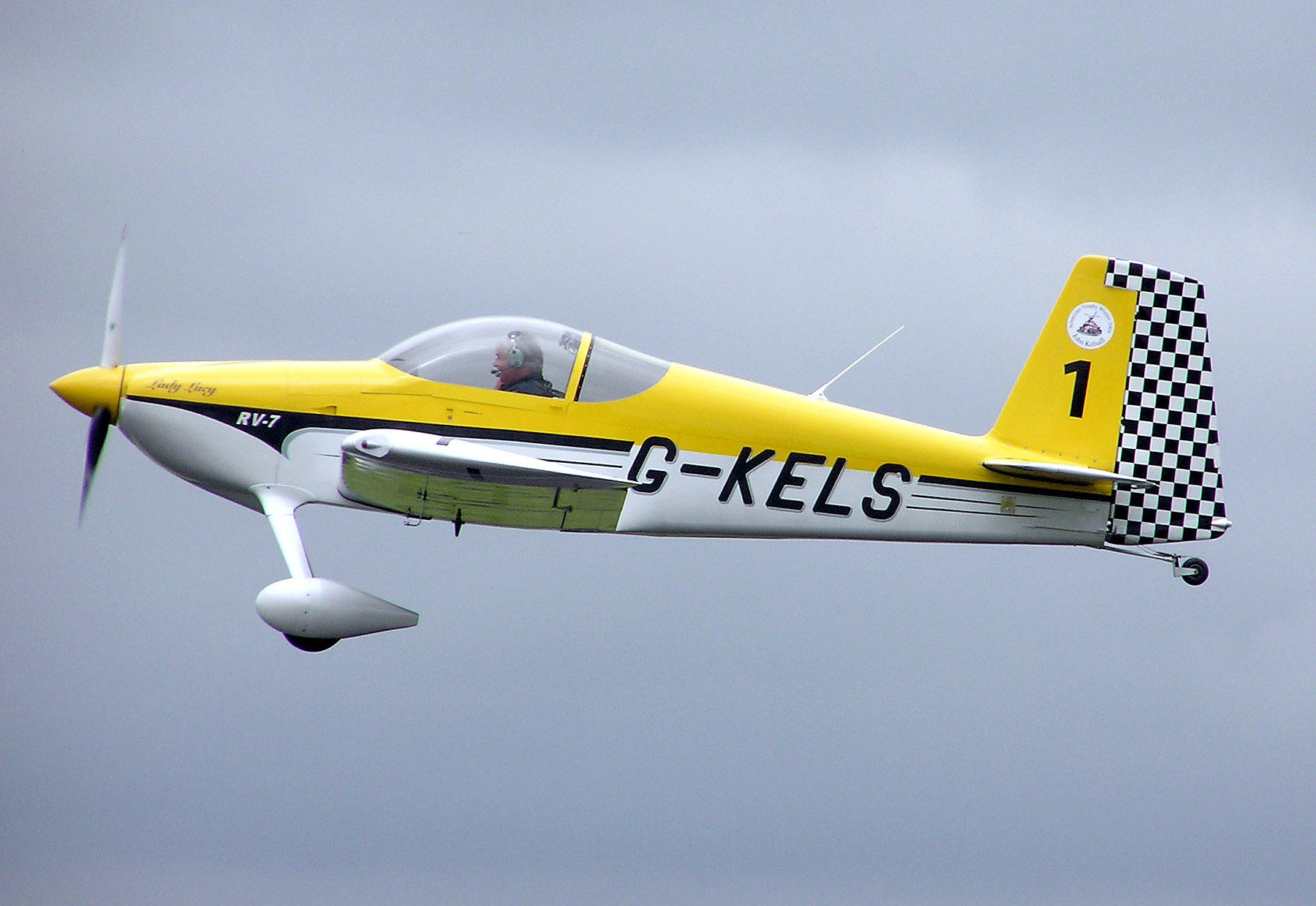 Vans RV-7 (G-KELS) at Kemble Airfield, Gloucestershire, England. Built 2003. Photographed by Adrian Pingstone in July 2005 and released to the public domain.